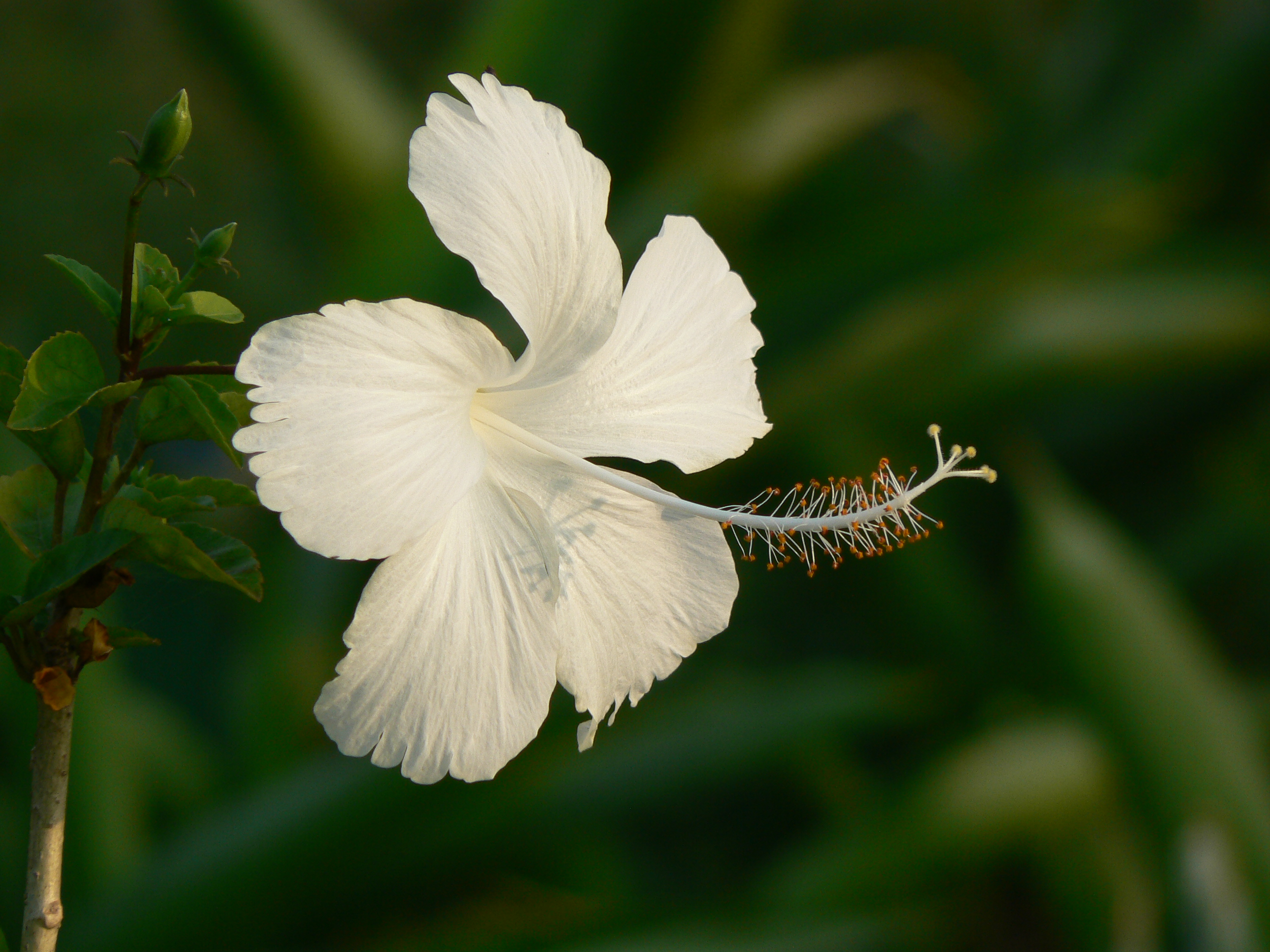 Common name: China Rose, Chinese hibiscus, Gurhal गुढ़ल (Hindi), Juba kusum athonba (Manipuri), Chemparati (Malayalam), Sembaruthi செம்பருத்தி (Tamil), Jaswand जासवंद (Marathi), Dosni Phool दोस्णि फुल (Konkani) Botanical name: Hibiscus rosa-sinensis - [ (Hye-bisk-us) Rose-mallow; (Roh-suh - sin-nen-sis) Rose, of or from China ] Family: Malvaceae (mallow family) - [ (mal-VAY-see-ay) the Malva (mallow) family ] Origin: Asia and islands of Pacific Hibiscus or Rosemallow is a large genus of about 200-220 species of flowering plants in the family Malvaceae, native to warm temperate, subtropical and tropical regions throughout the world. The genus includes both annual and perennial herbaceous plants, and woody shrubs and small trees. The leaves are alternate, simple, ovate to lanceolate, often with a toothed or lobed margin. The flowers are large, conspicuous, trumpet-shaped, with five petals, ranging from white to pink, red, purple or yellow, and from 4-15 cm broad. The fruit is a dry five-lobed capsule, containing several seeds in each lobe, which are released when the capsule splits open at maturity. Courtesy: - Flowers of India - Top Tropicals - From Wikipedia, the free encyclopedia Note: Identification attempted; may not be accurate.